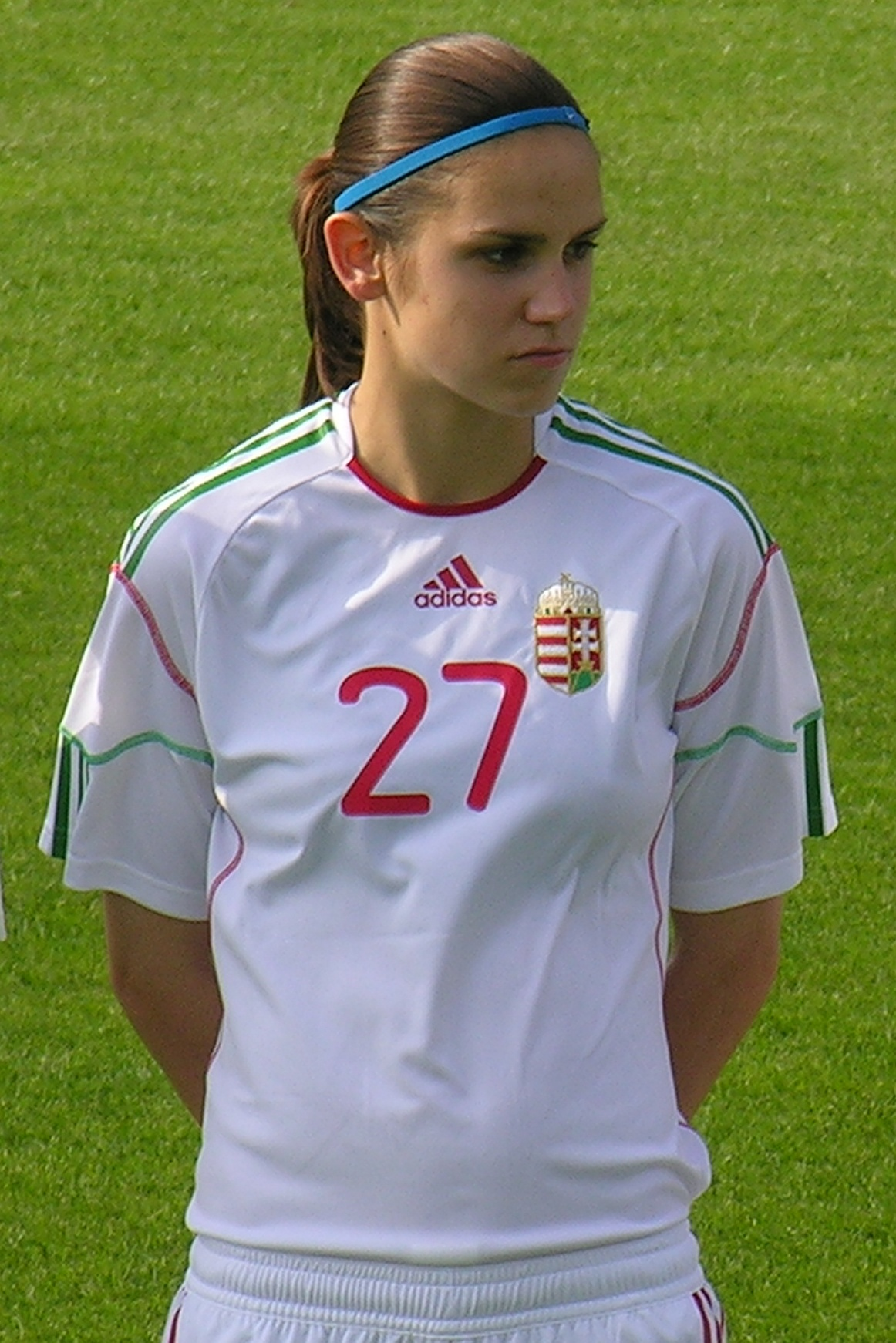 Lilla Sipos Hungarian international football player. Hungary-Ukraine 0-4.